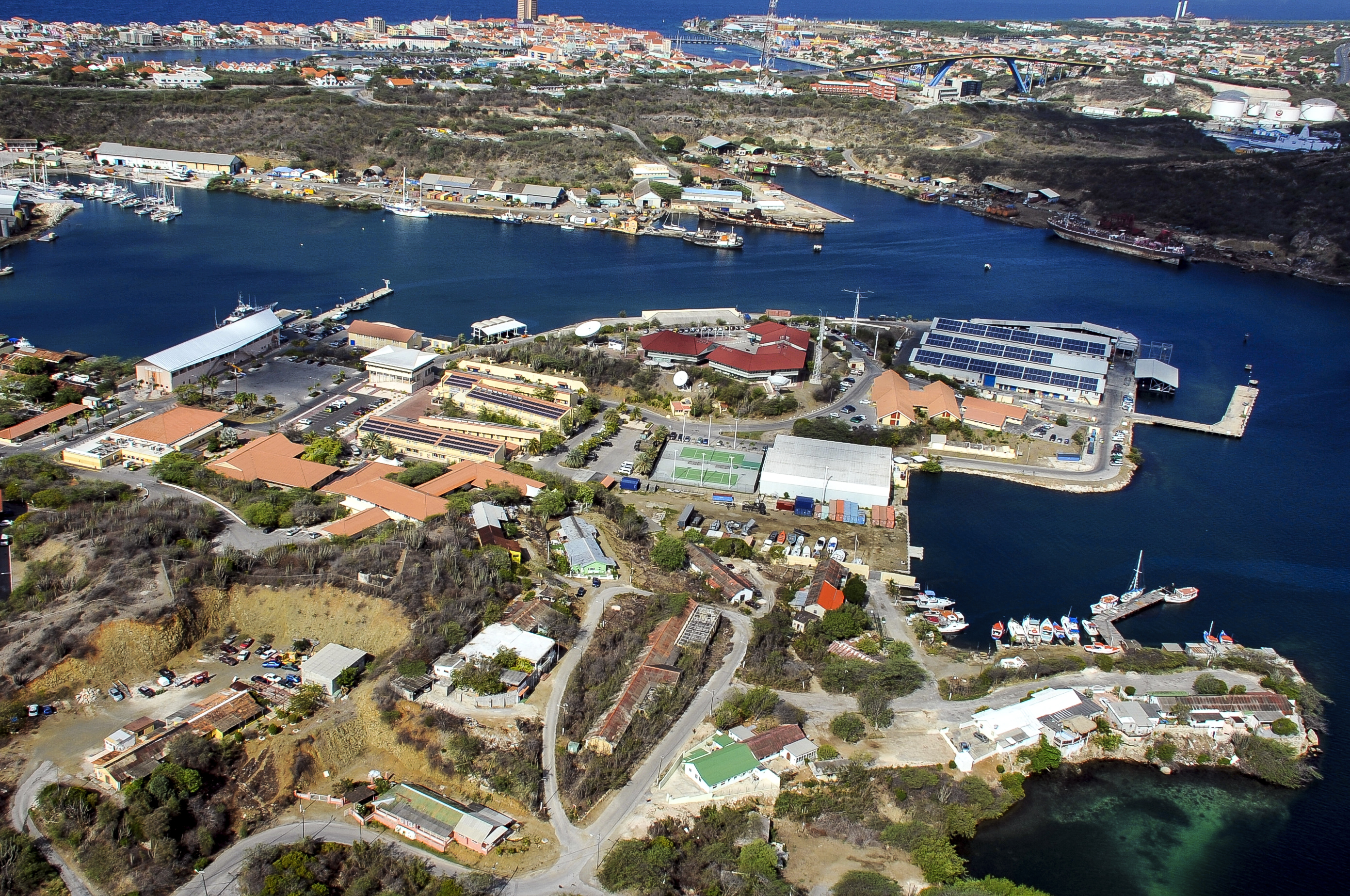 Curaçao, 25 augustus 2014.Luchtfoto van Marinebasis Parera.